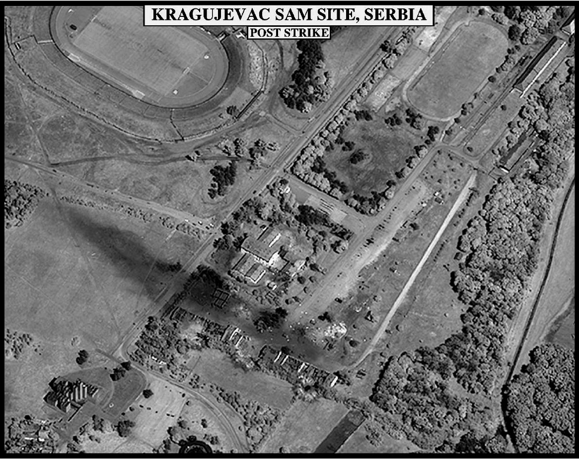 Post-strike bomb damage assessment photograph of the Kragujevac SAM Site, Serbia, used by Joint Staff Vice Director for Strategic Plans and Policy Maj. Gen. Charles F. Wald, U.S. Air Force, during a press briefing on NATO Operation Allied Force in the Pentagon on May 17, 1999.